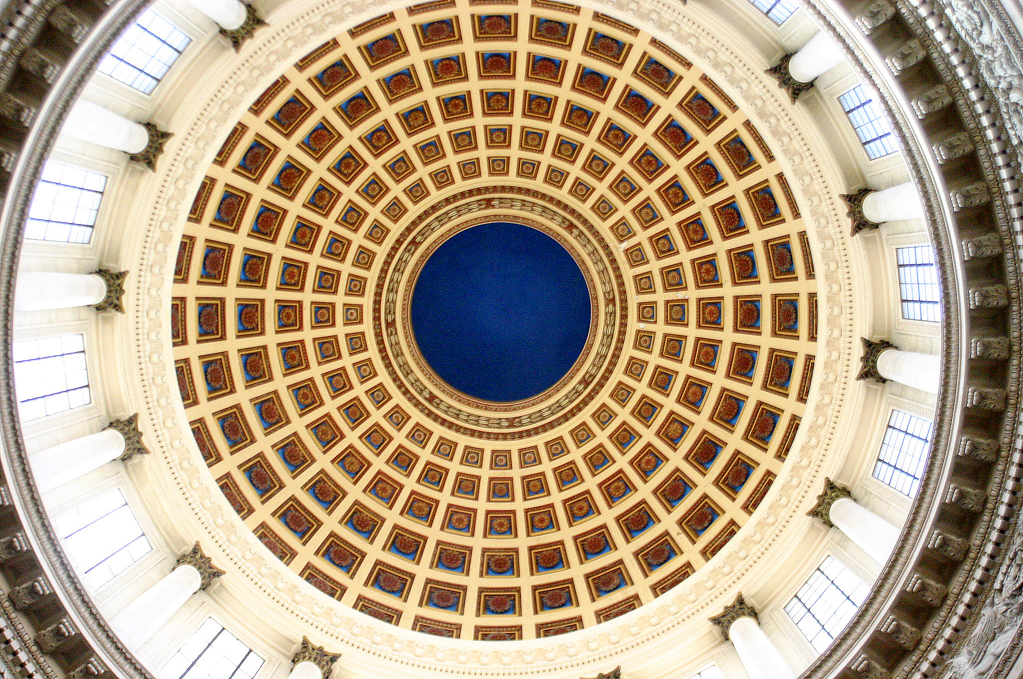 The cupola of Capitolio from inside, Havana, Cuba, December 2006